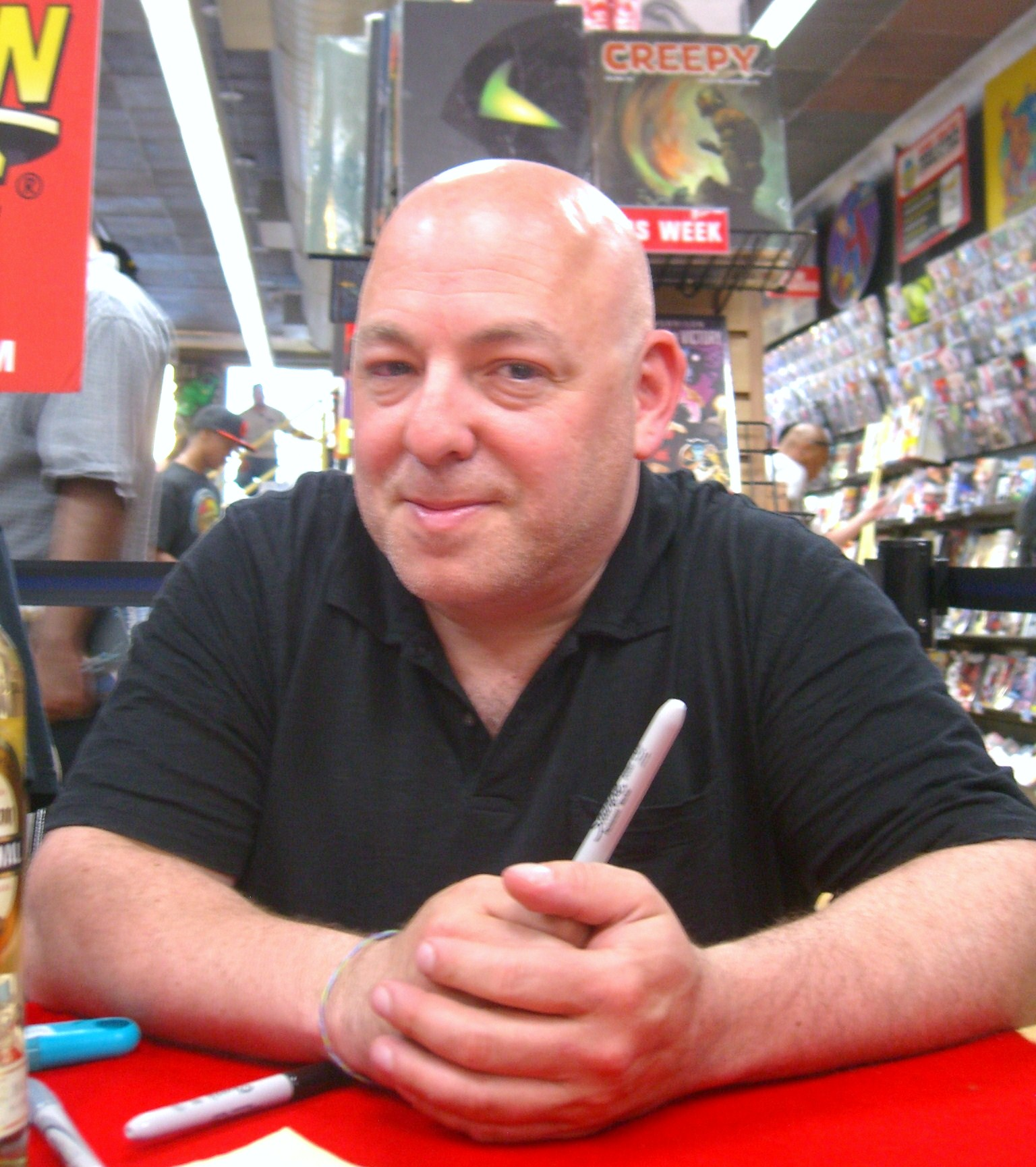 Writer Brian Michael Bendis at a book signing at Midtown Comics Times Square in Manhattan, June 21, 2010. Photo by Luigi Novi. This photo may be used and modified, for any purpose, only if the photographer is visibly credited in each instance in which it is used. (See licensing information below.) For more information on my photos, you can contact me here.